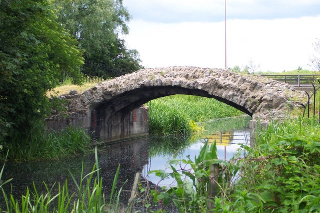 Picture of Harold's Bridge, Cornmill Stream, Essex